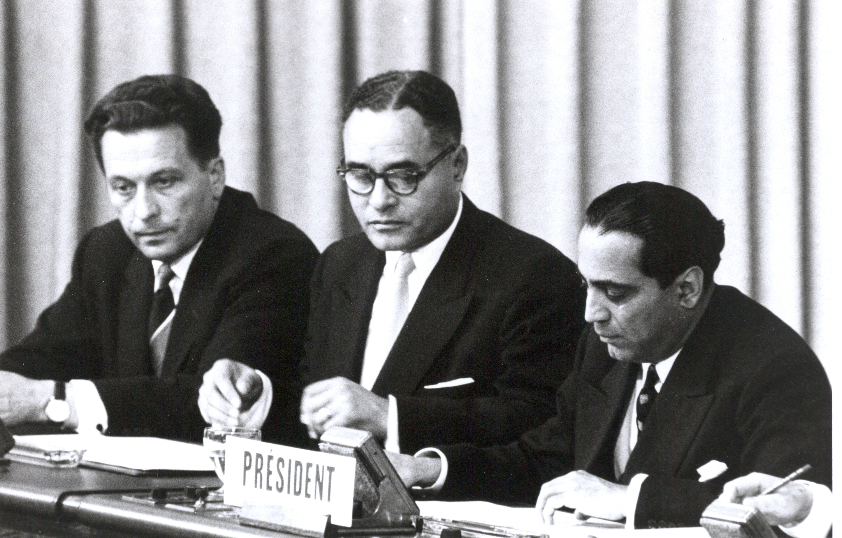 Atoms for Peace (Historical) "Closing sessions of the Atoms for Peace Conference". Seen here at the closing session of the International Conference on the Peaceful Uses of Atomic Energy which opened here on 8 August are (left to right), Mr. Ilya S. Tchernychev and Dr. Ralph J. Bunche, Under Secretaries of the UN without Portfolio, and Dr. Homi J. Bhabha from India, President of the Conference. (Geneva, Switzerland, August 20, 1955) Copyright: IAEA Imagebank Photo Credit: United Nations / New York